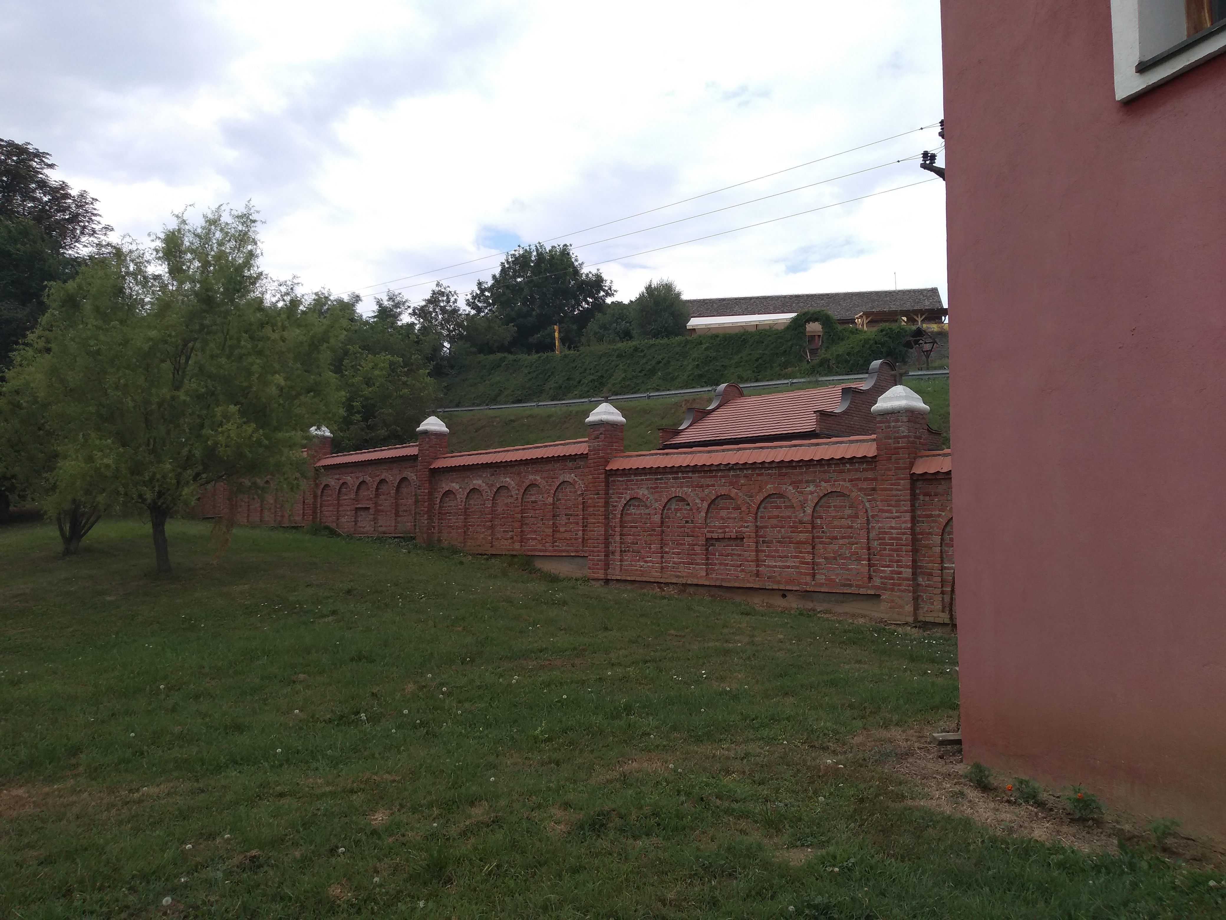 Krušedol Monastery Srpski (latinica): Zidine Manastira Krušedol, 2019